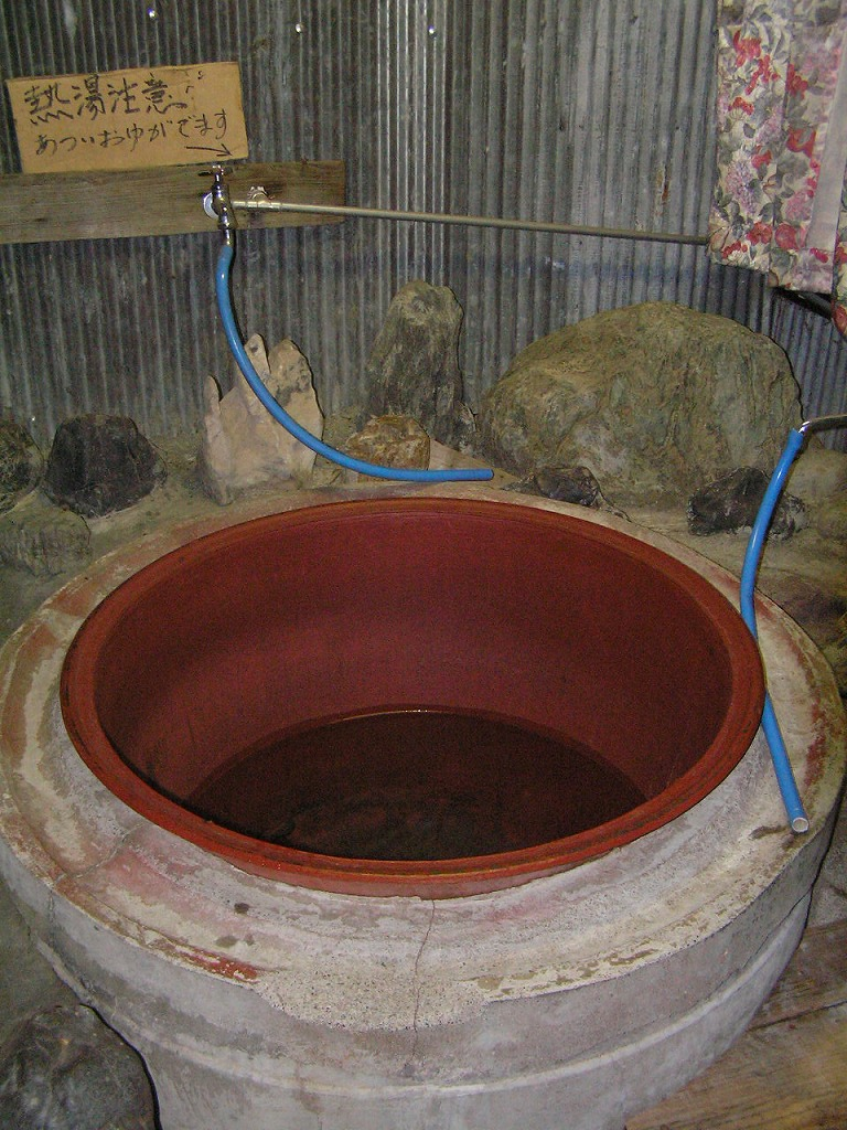 goemon-huro 五右衛門風呂 ち炉りん村